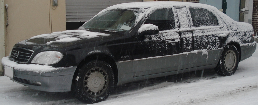 SsangYong Chairman Limousine